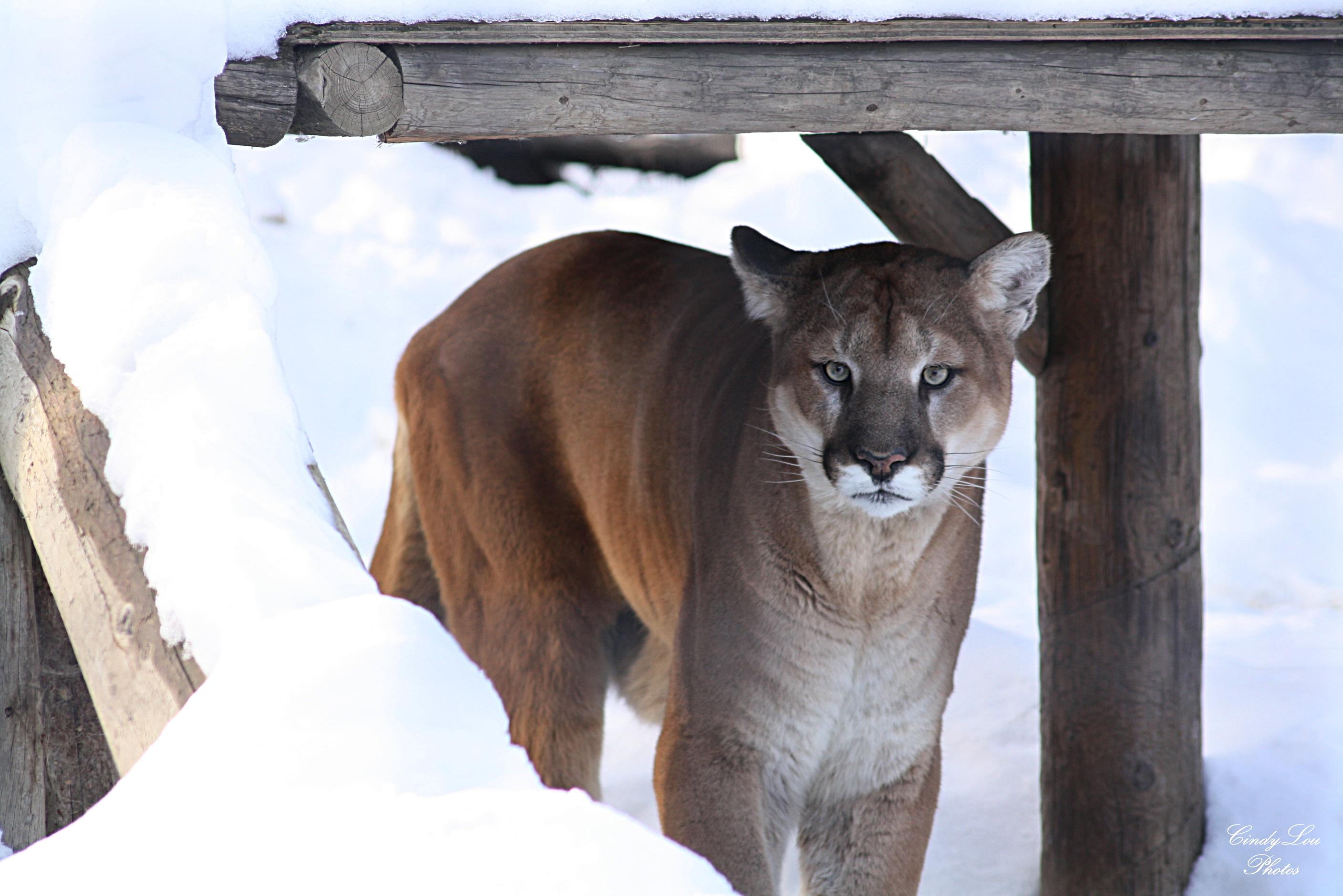 A cougar or mountain lion (Puma concolor), Saskatoon Forestry Farm Park and Zoo.